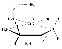 chemical structure drawing